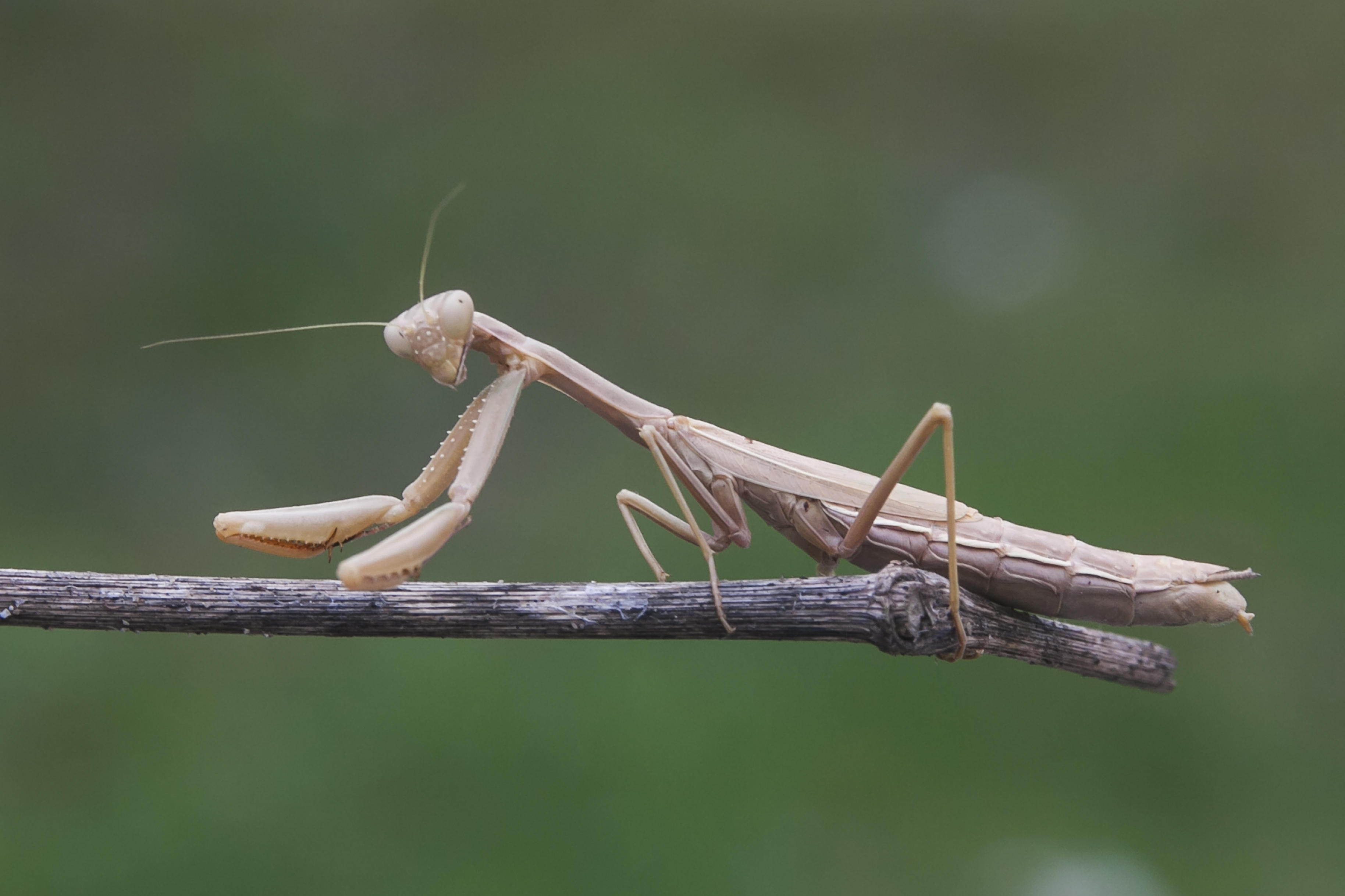 Iris polystictica (Fischer-Waldheim, 1846), adult female. Captured in Kyrylivka, Zaporizhya region, Ukraine. Dry grassland of "Kyrylivka" sanatorium. Included to Red Book of Ukraine